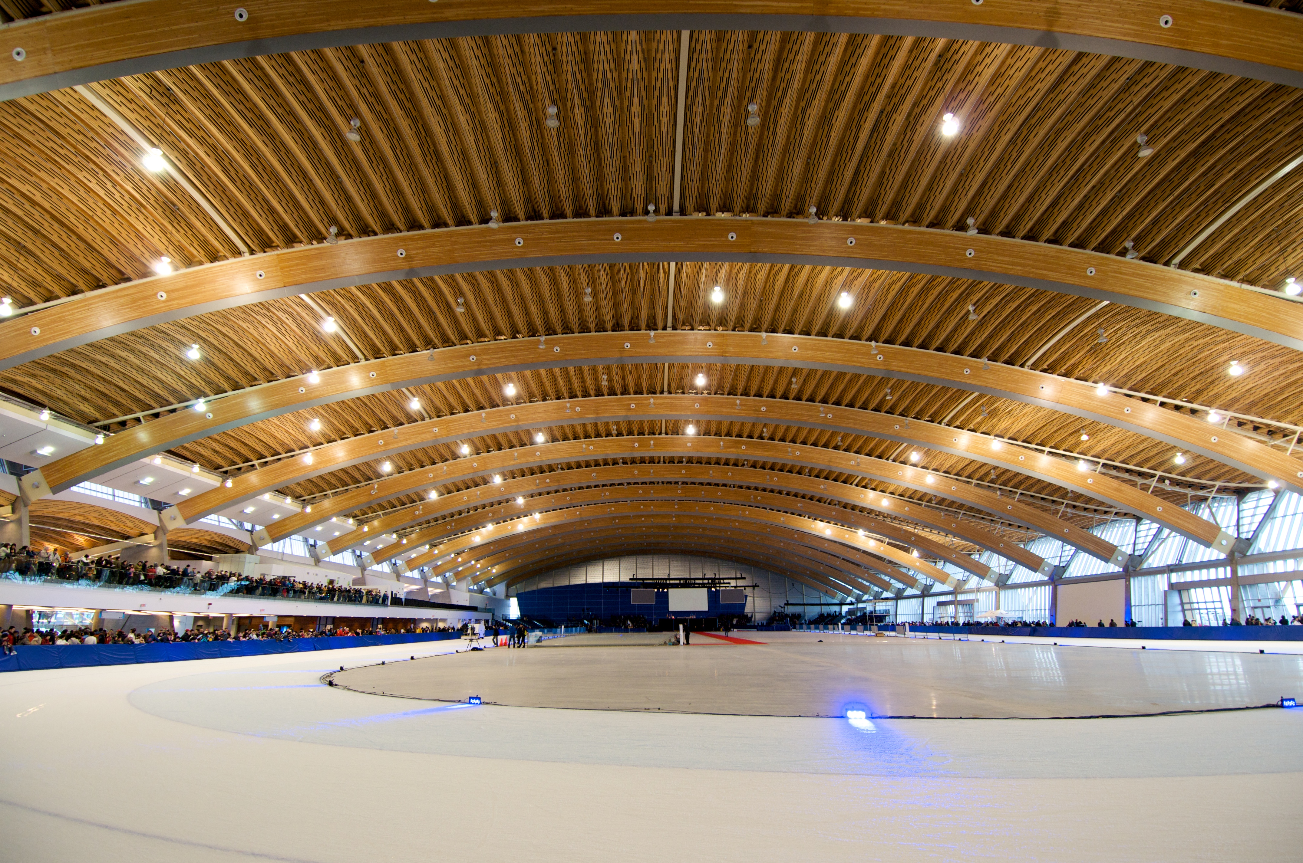 Intern view the Richmond Olympic Oval, Canada